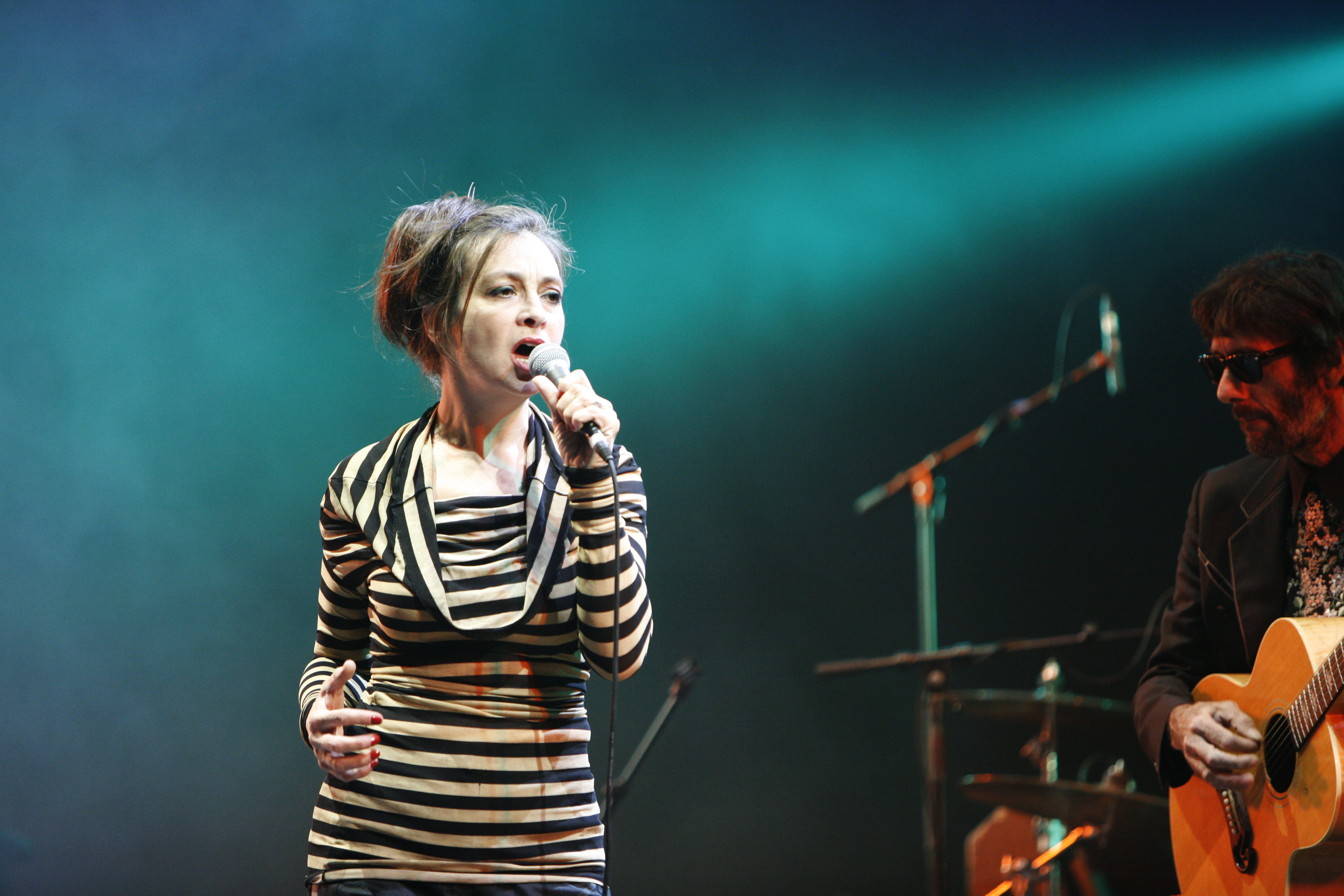 Les Rita Mitsouko at the Eurockéennes of 2007